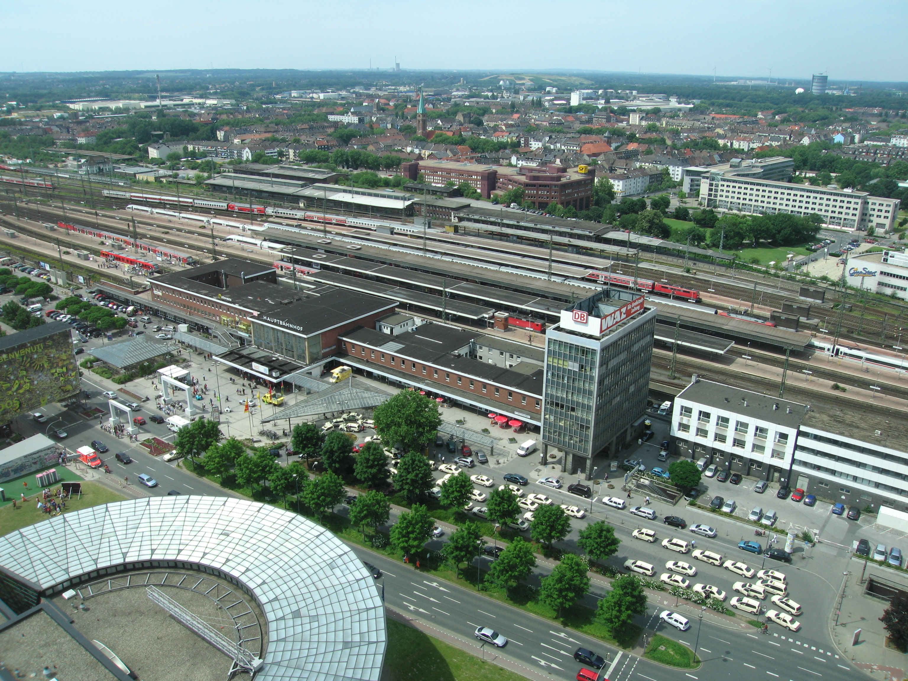 Dortmund central station seen from RWE tower